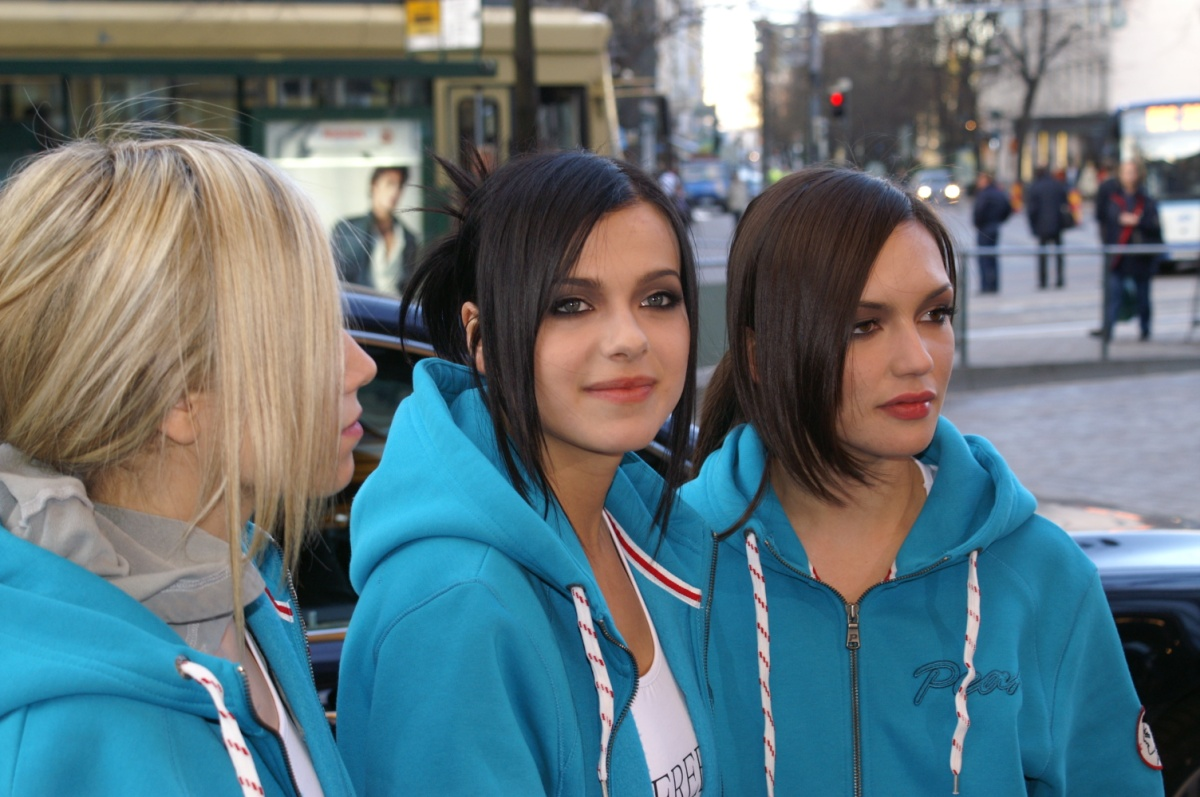 Russian Girlgroup Serebro during the Eurovision Song Contest Week in Helsinki (left to right: Marina Lizorkina, Elena Temnikova and Olga Seryabkina).